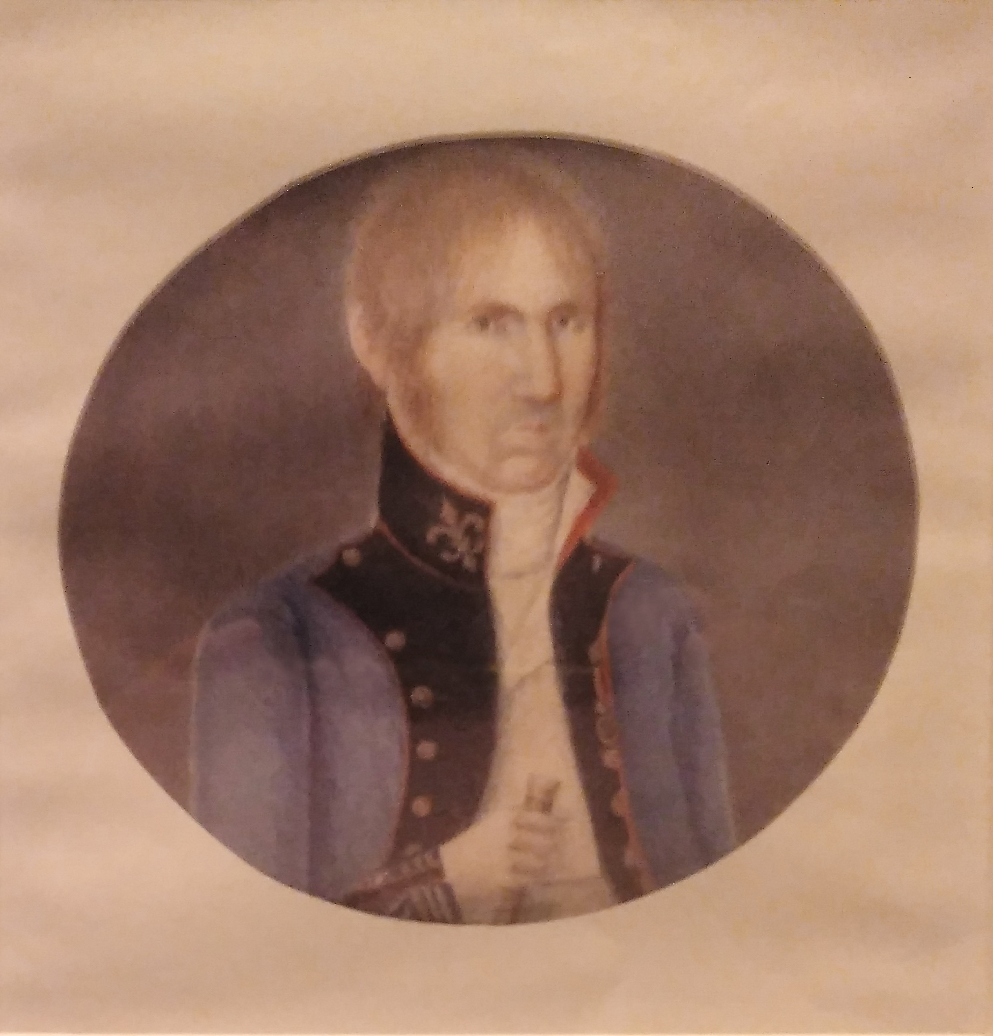 General Blake. Work conserved in the palace of Cervelló (Valencia).